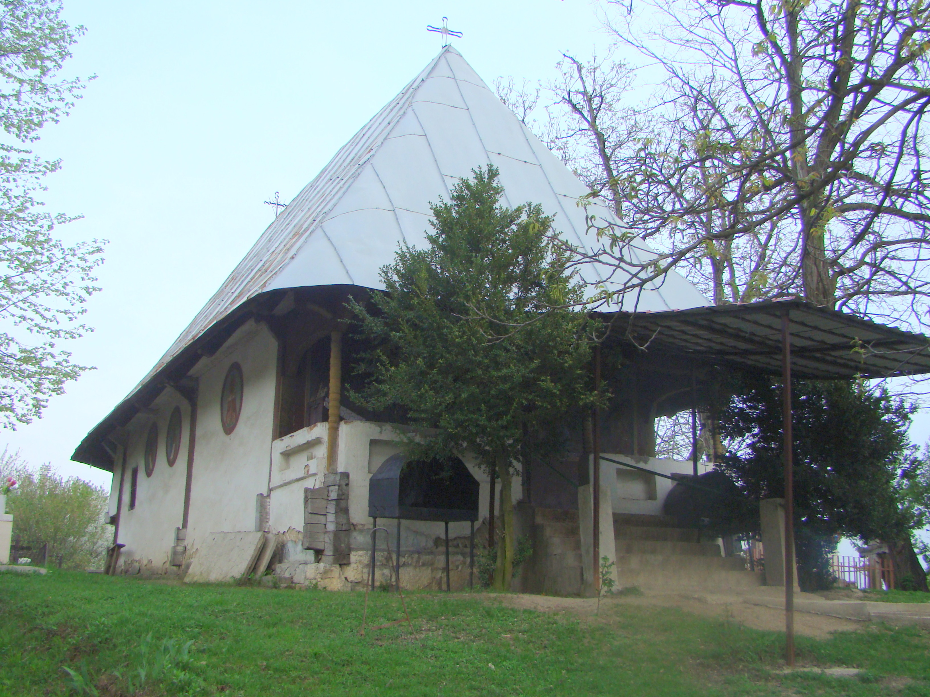 Wooden church in Miculești, Gorj county, Romania